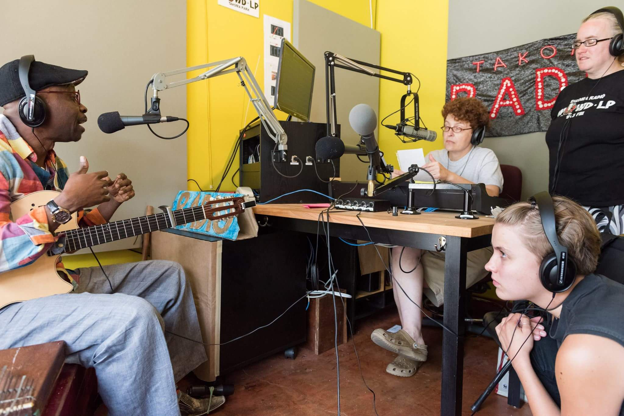 Sara, of the Division of Policy, Performance, and Management Programs, has been volunteering for Takoma Radio, a low-power FM station, reaching about five miles from downtown Takoma Park, Maryland, since 2016. In addition to other support activities for the station, she does a music radio show every other Thursday night on which she plays indie rock and other genres, with a local emphasis. The station is a project of Historic Takoma Inc., and its mission is to build community and promote understanding using noncommercial radio. Here she is with musician Jaja Bashengezi and other Takoma Radio volunteers (Sara is at the desk) in the studio on July 16, 2016, the day the station first went on the air. Photo Courtesy Sara Prigan